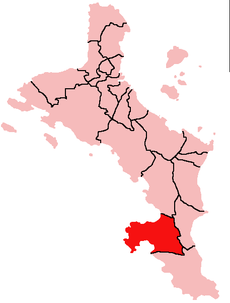 Map of Mahe Island, Seychelles showing Baie Lazare District; created with the GIMP. Made by User:Acntx.